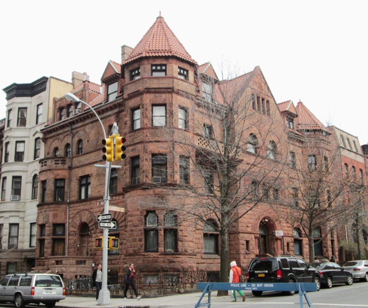 115-119 8th Avenue at Carroll Streets in the Park Slope neighborhood of Brooklyn, New York City was built in 1888 as a double house, commissioned by Thomas Adams Jr., who invented the Adams Chiclet automatic vending machine. It was designed by noted architect C.P.H. Gilbert in the Richardsonian Romanesque revival style, and is one the bext examples of that style extant in New York City. The house was built of sandstone, terra cotta and brick on a bronstwone base, and was the first house in the neighborhood with an elevator. It has now been converted into apartments. The building is located within the Park Slope Historic District. (Sourcea: "Park Slope Historic District Designation Report" and [1])